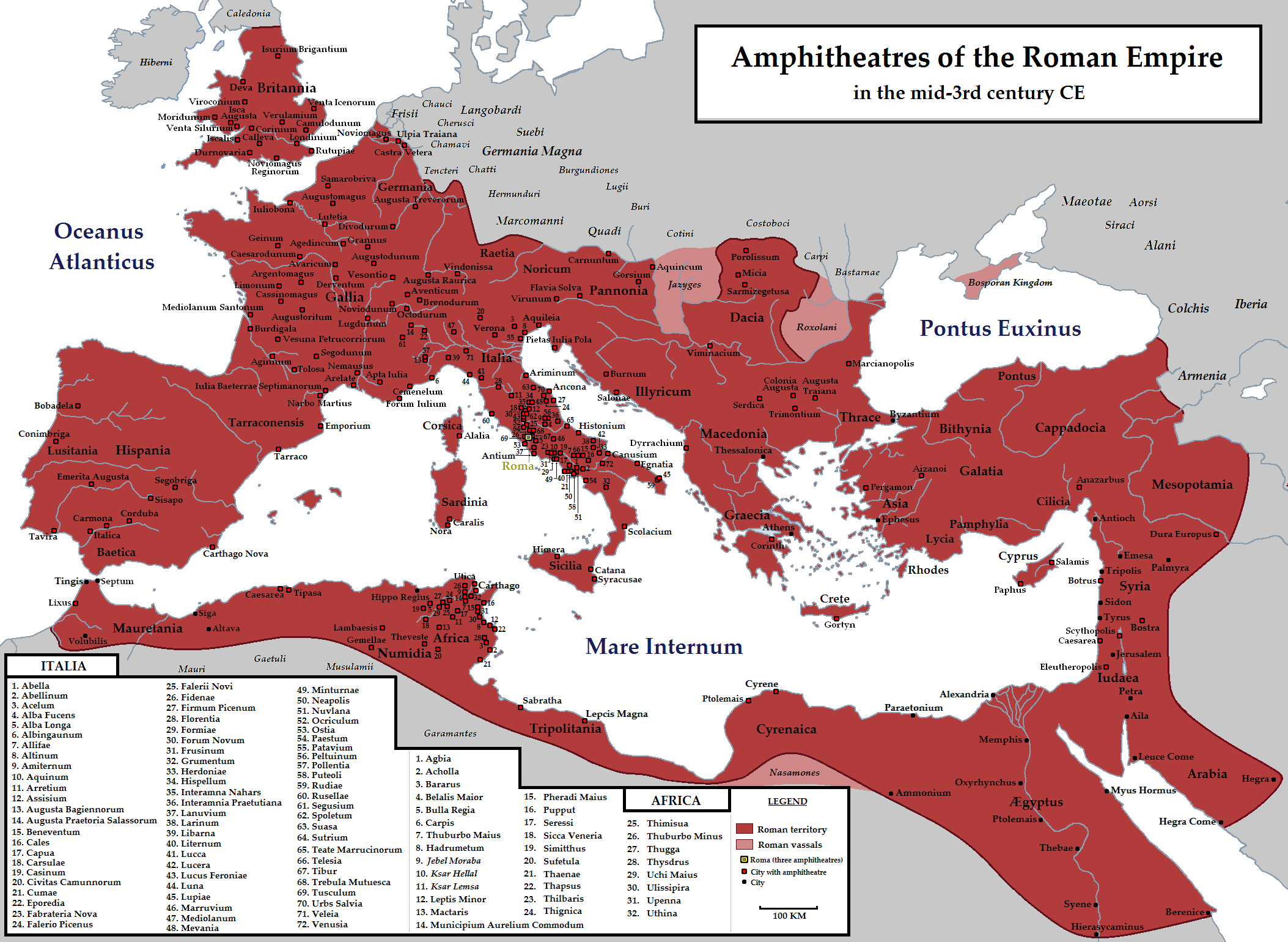 Amphitheatres of the Roman Empire in the mid-3rd century CE